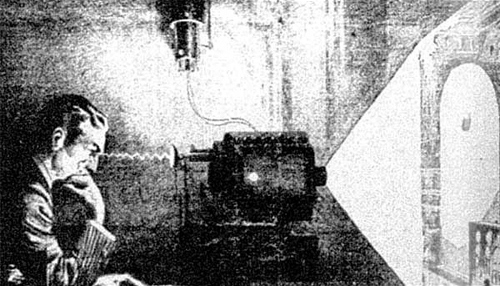 Tesla's theoretical invention, the thought camera. Projects thoughts onto screen.